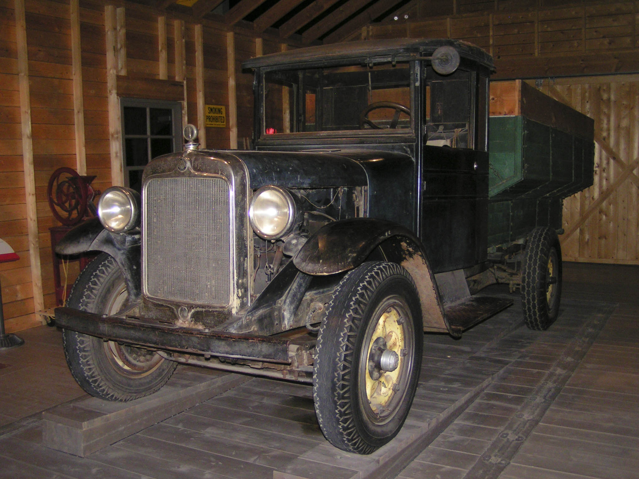 1928 Graham Brother 2 ton